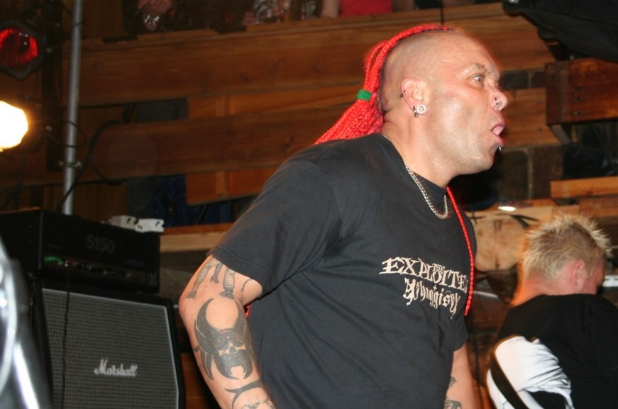 Wattie Buchan in concert with the Exploited.